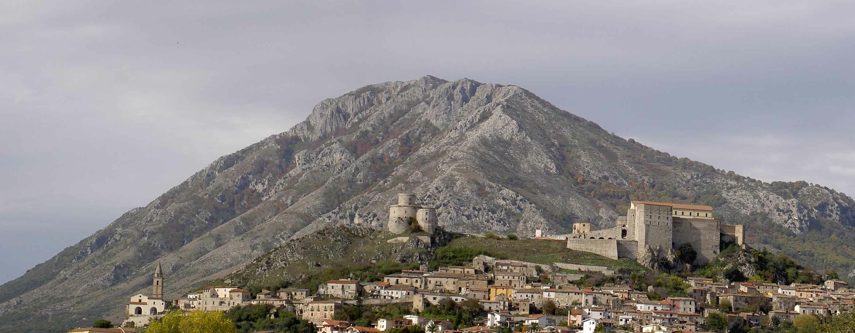 monte Taburno da Montesarchio